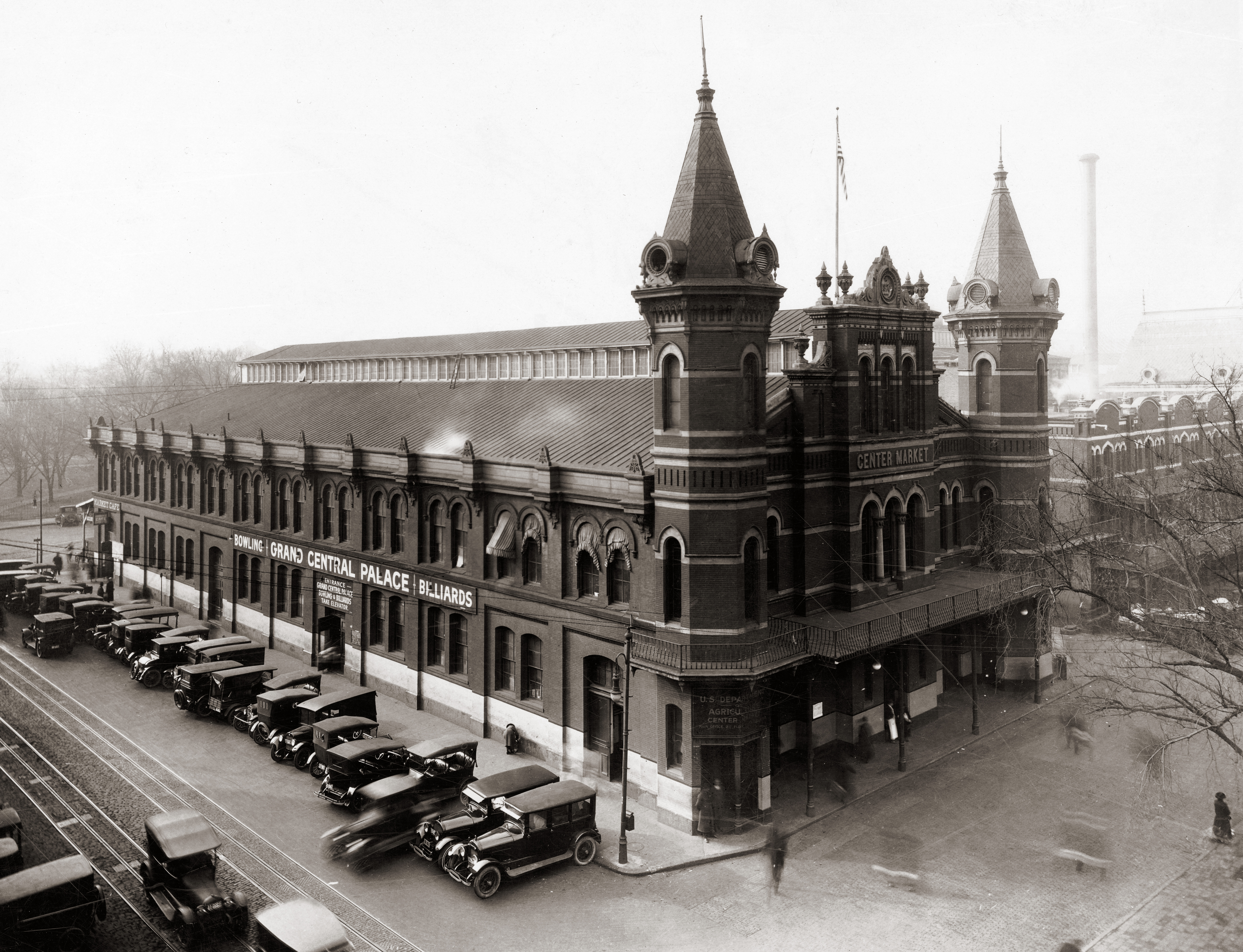 Built in 1871 and designed by noted architect Adolf Cluss, Center Market was located at 7th Street and Pennsylvania Avenue, NW in downtown Washington, D.C. It was one of several large markets (Center Market covered two city blocks) where Washingtonians shopped daily for various foods. Even before Center Market was constructed, the site had been used as a marketplace since 1801. Center Market was demolished in 1931 and replaced with the National Archives Building. Eastern Market and O Street Market are the city's only historic market halls still standing, although O Street Market's roof collapsed during a snowstorm in 2003.